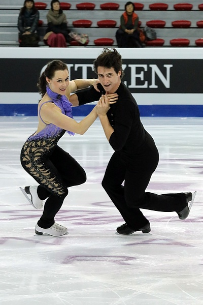 Tessa Virtue and Scott Moir at the 2016 Grand Prix Final